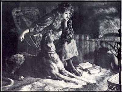 Print of Herbert Dicksee's painting "Silent Sympathy" (1894).